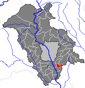 This map shows the area of the Gemeinde (municipality) Hausmannstätten in the Bezirk (district) Graz-Umgebung, Styria, Austria.